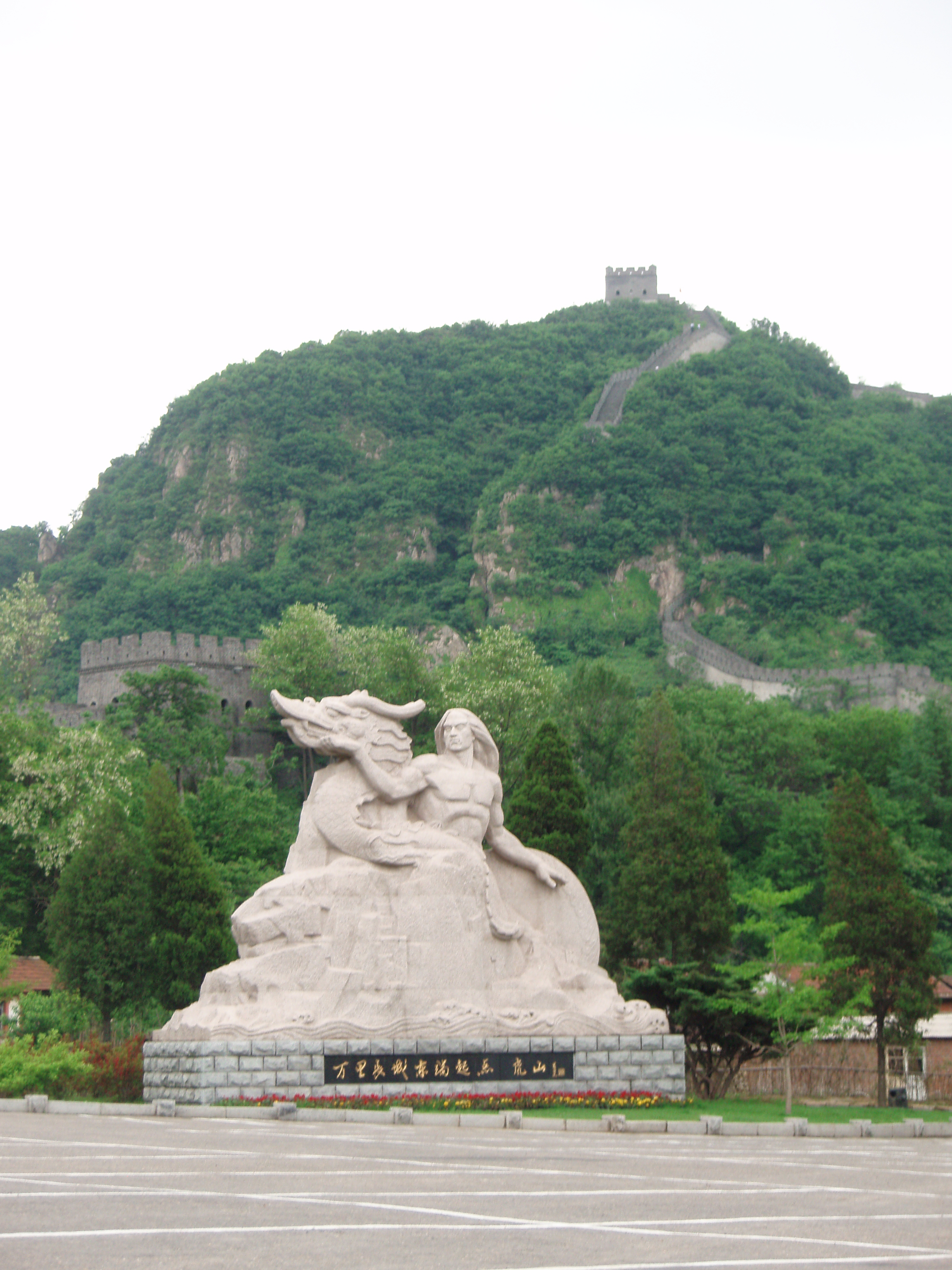 The Eastern most section of the Great Wall of China outside Dandong, China.